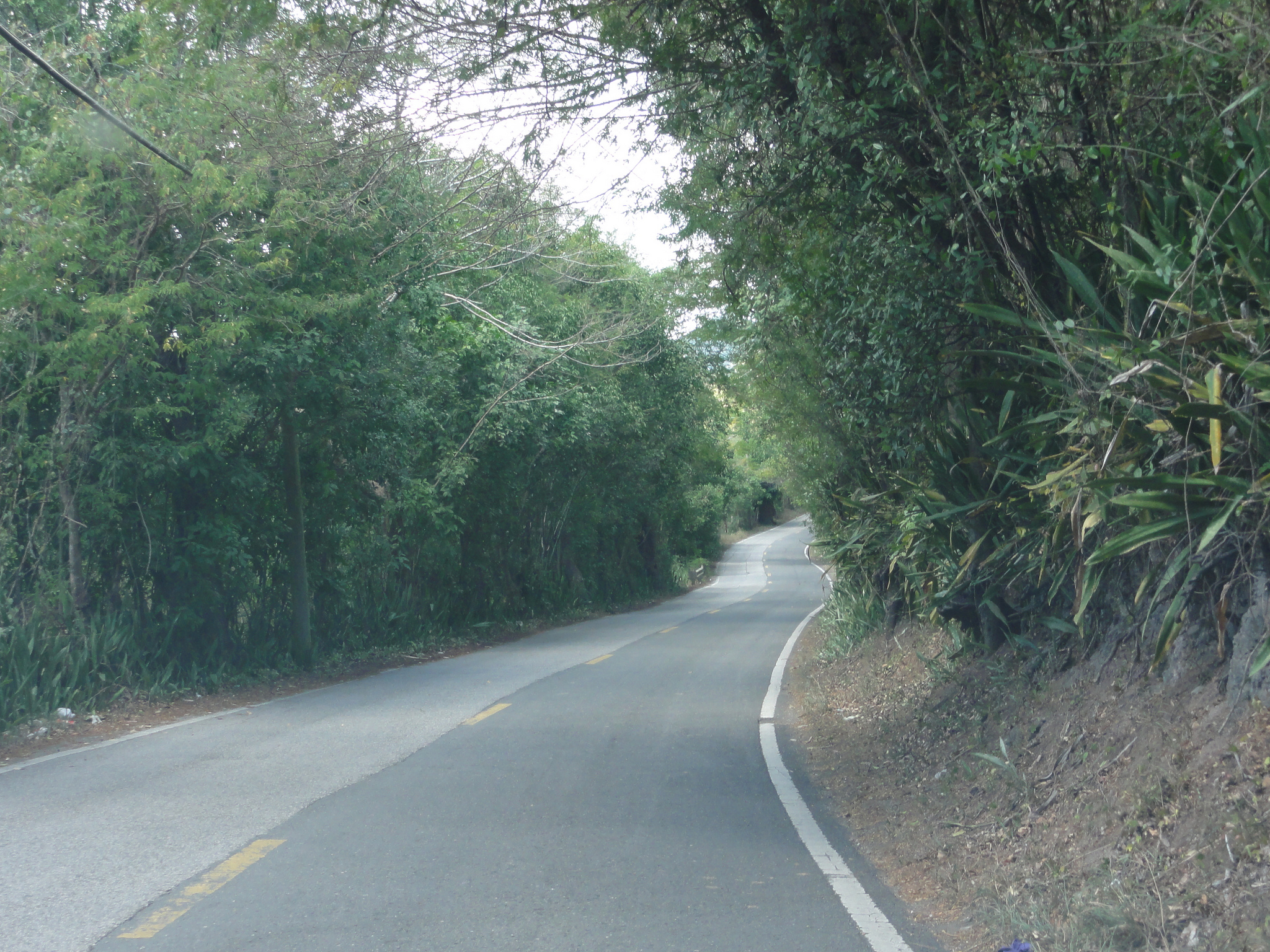 Escena en el Barrio Machuelo Arriba (PR-139 Norte), Ponce, Puerto Rico